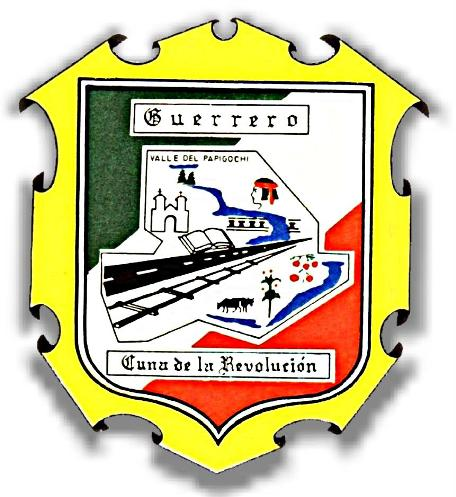 Guerrero Chihuahua State - Mexico